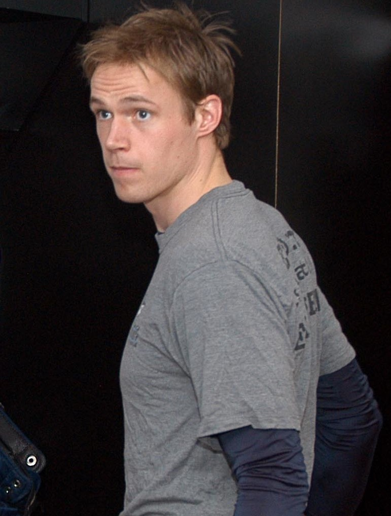 JustSports Photography/AHL